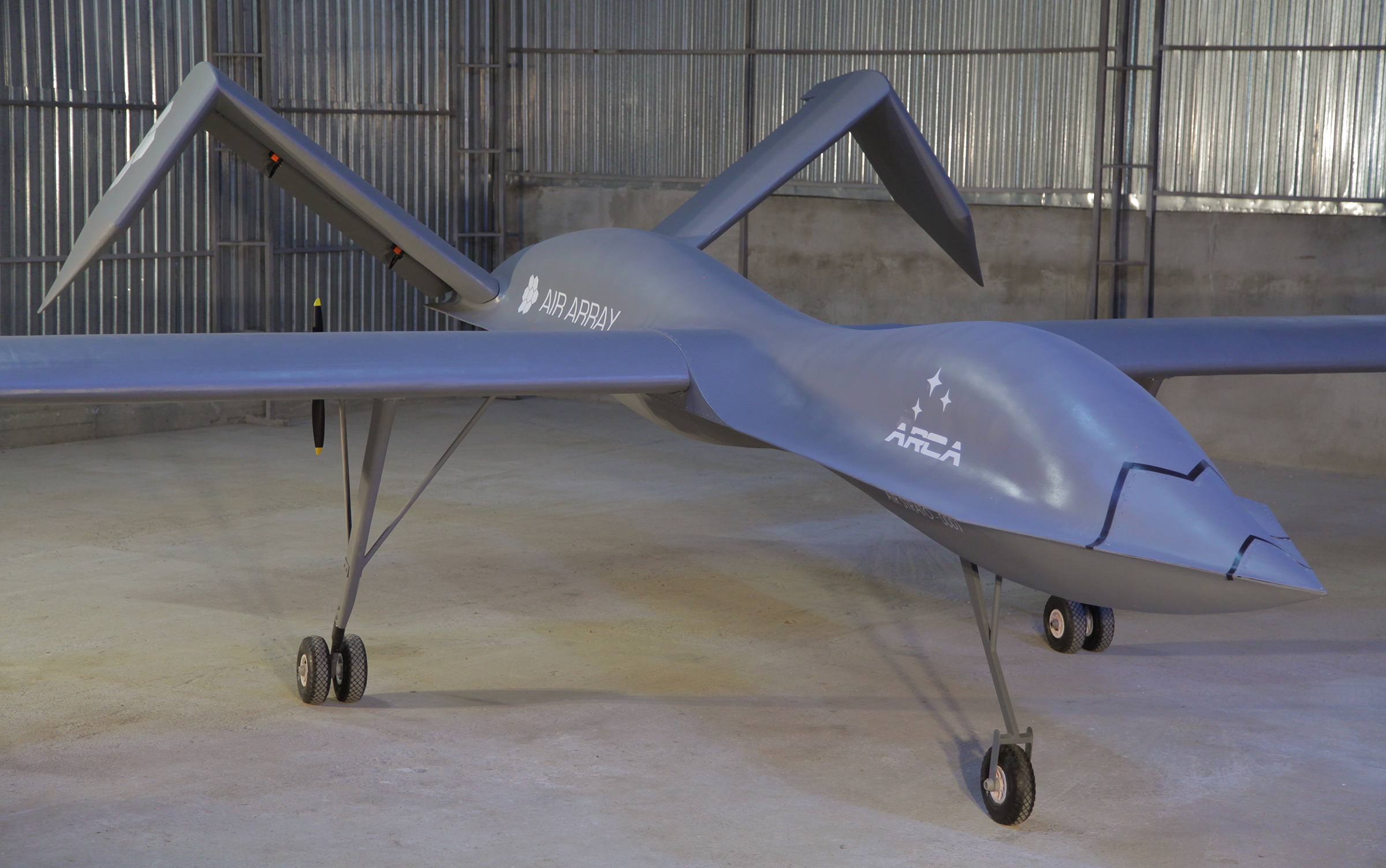 First prototype of Air Strato UAV in hangar at ARCA